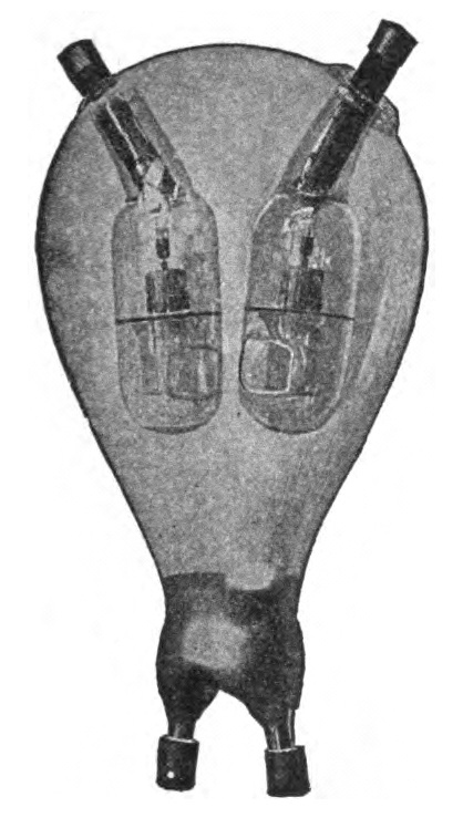 One of the first mercury arc rectifier bulbs, invented by Peter Cooper Hewitt in 1902. It consists of a partially evacuated glass bulb with a cathode electrode at the bottom consisting of a pool of the liquid metal mercury, and two graphite anode electrodes at top. The mercury arc rectifier was used into the 1970s to provide high power DC current to power industrial motors, electric locomotives, streetcars, and battery chargers.